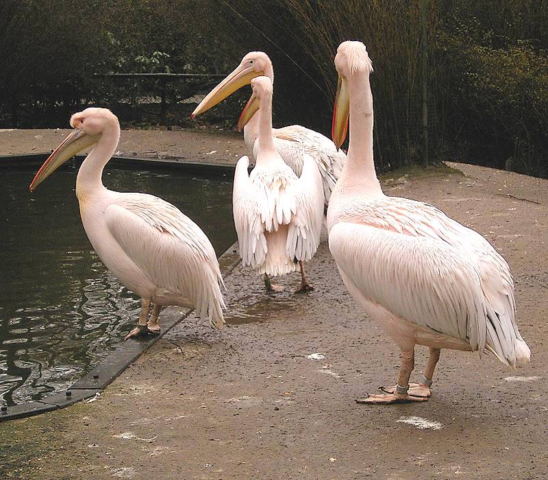 Pelecanus onocrotalus - Burgers Zoo, NL